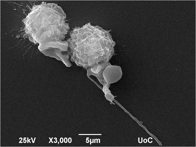 An anaplastic thyroid carcinoma cell (ARO) adhered to glass surface. Picture taken by a Scanning electron microscope (SEM), University of Crete, Heraklion, Greece.